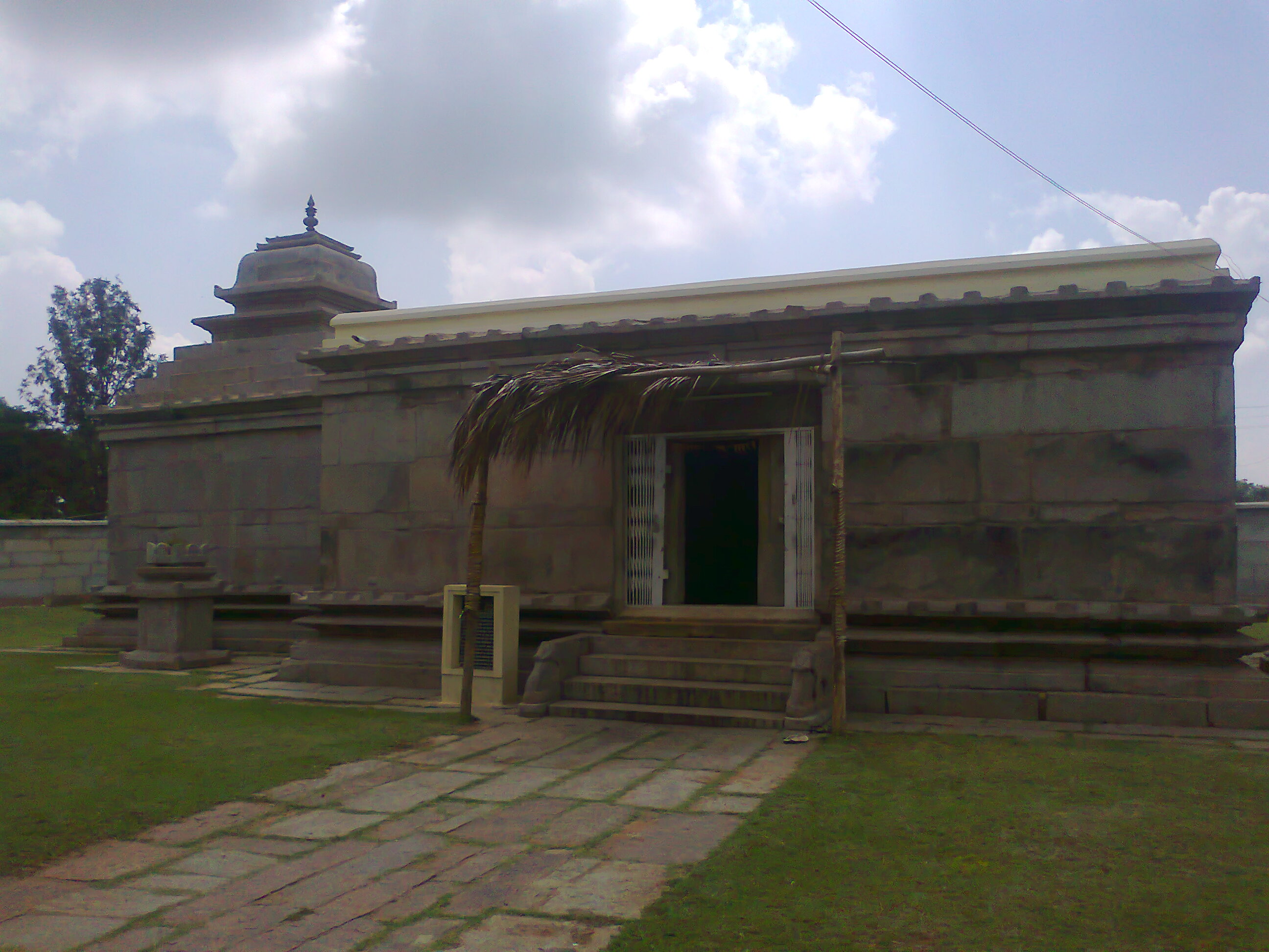 Kaidala Temple Place where Jakanachari got his Hand and hence the place came to be known as Kaidala.